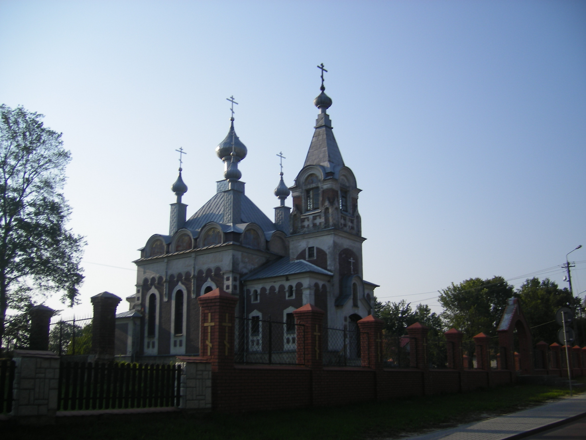 Sławatycze (Lublin voivodeship), orthodox church